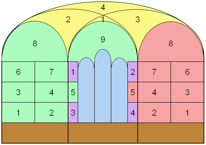 scheme of frescos in the Cappella Tornabuoni in Florence. In green stories of the Virgin, in red Stories of St. John the Baptist, in purple other stories, in yellow the evangelists (brown is the choir, blue is the window)